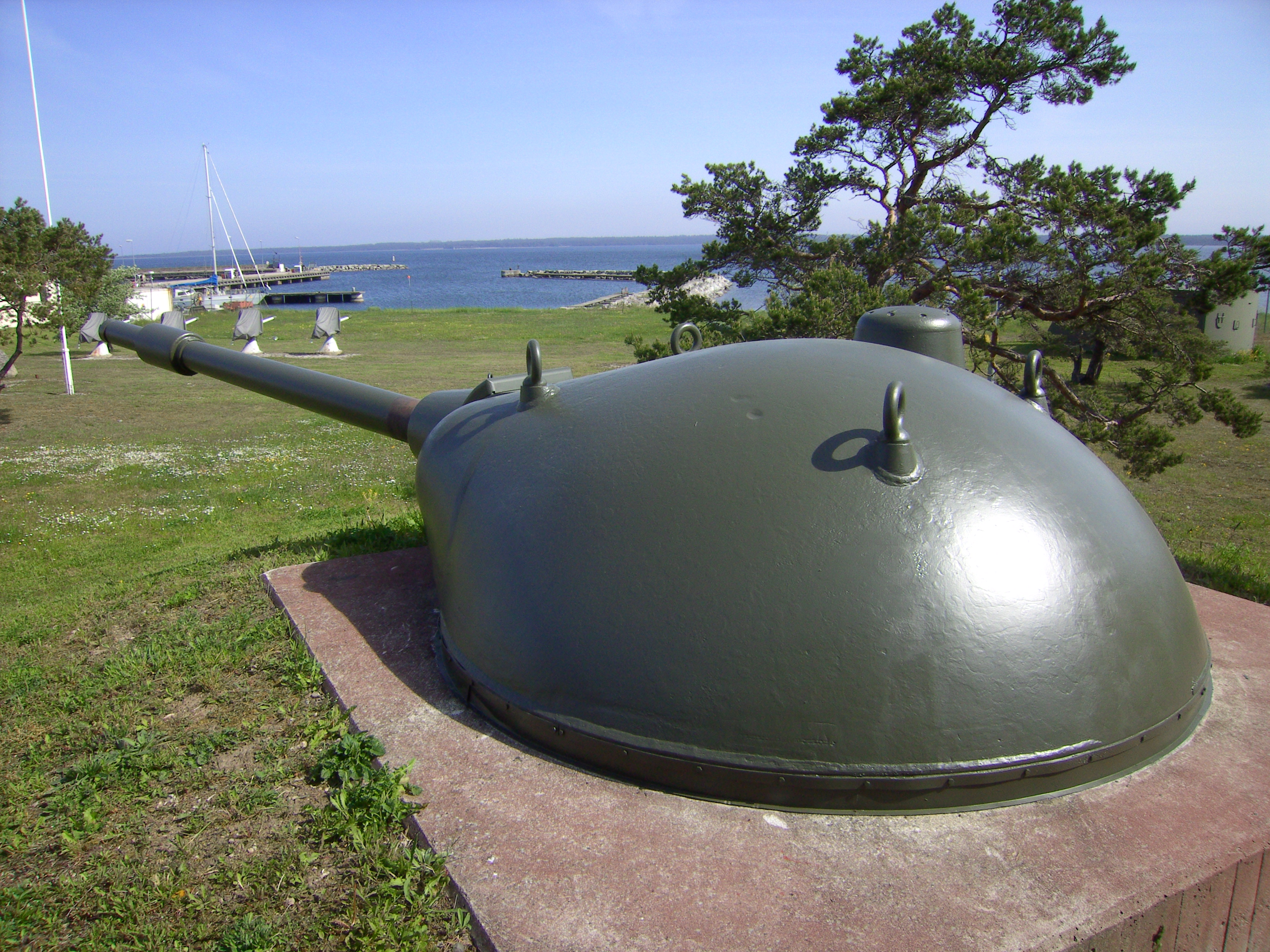 A Swedish naval artillery called 7.5 cm Tornpjäs m/57 at a museum in Fårösund, Gotland, Sweden.